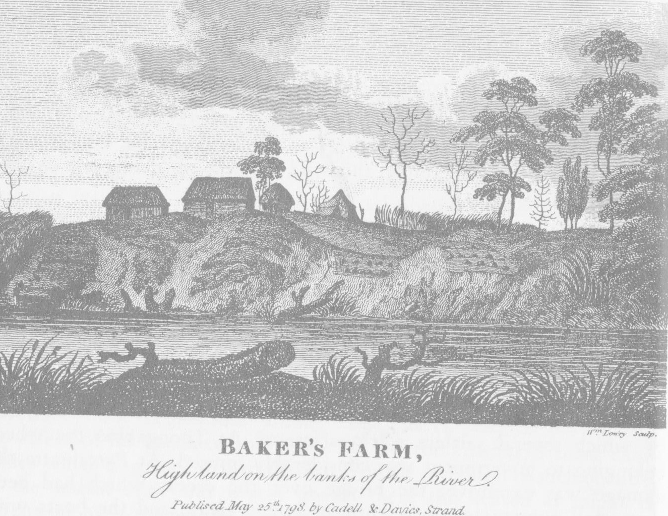 Sketch of an early NSW farm operated by colonist William Baker. Published in a contemporaneous account by Adjutant General David Collins. Sketch notes first publication date 25 May 1798, by Cadell & Davies, Strand, UK.